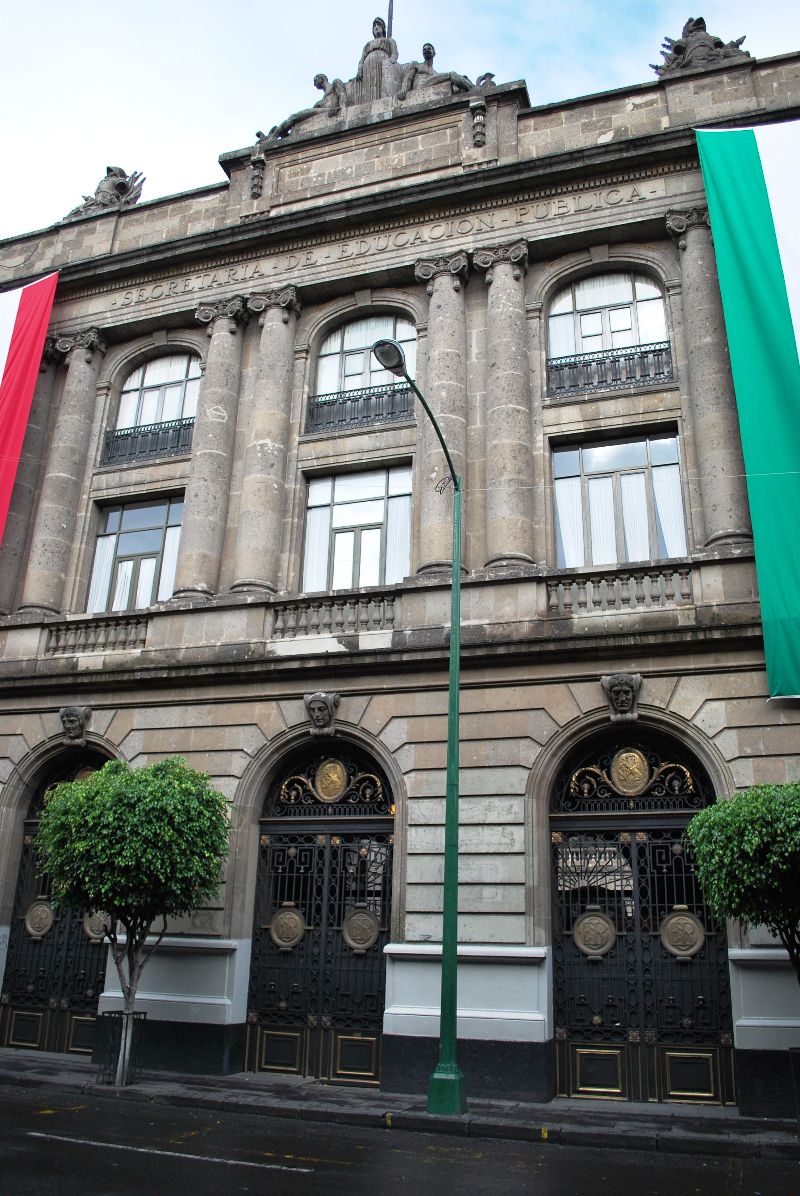 Main portal of the Secretariat of Public Education on Republica de Argentina Street in the historic center of Mexico City